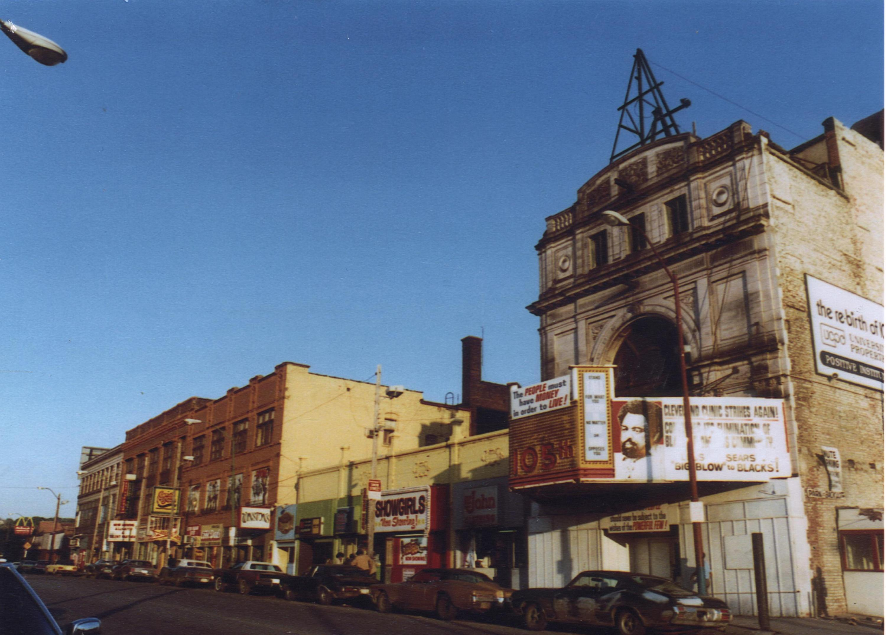 The Block